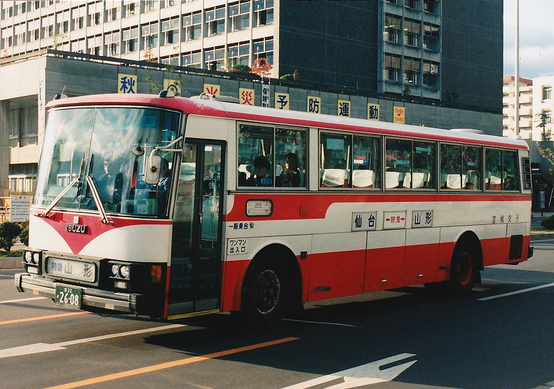 Miyagi Kotsu Isuzu P-LV218N for limited express bus "Sendai-Yamagata"